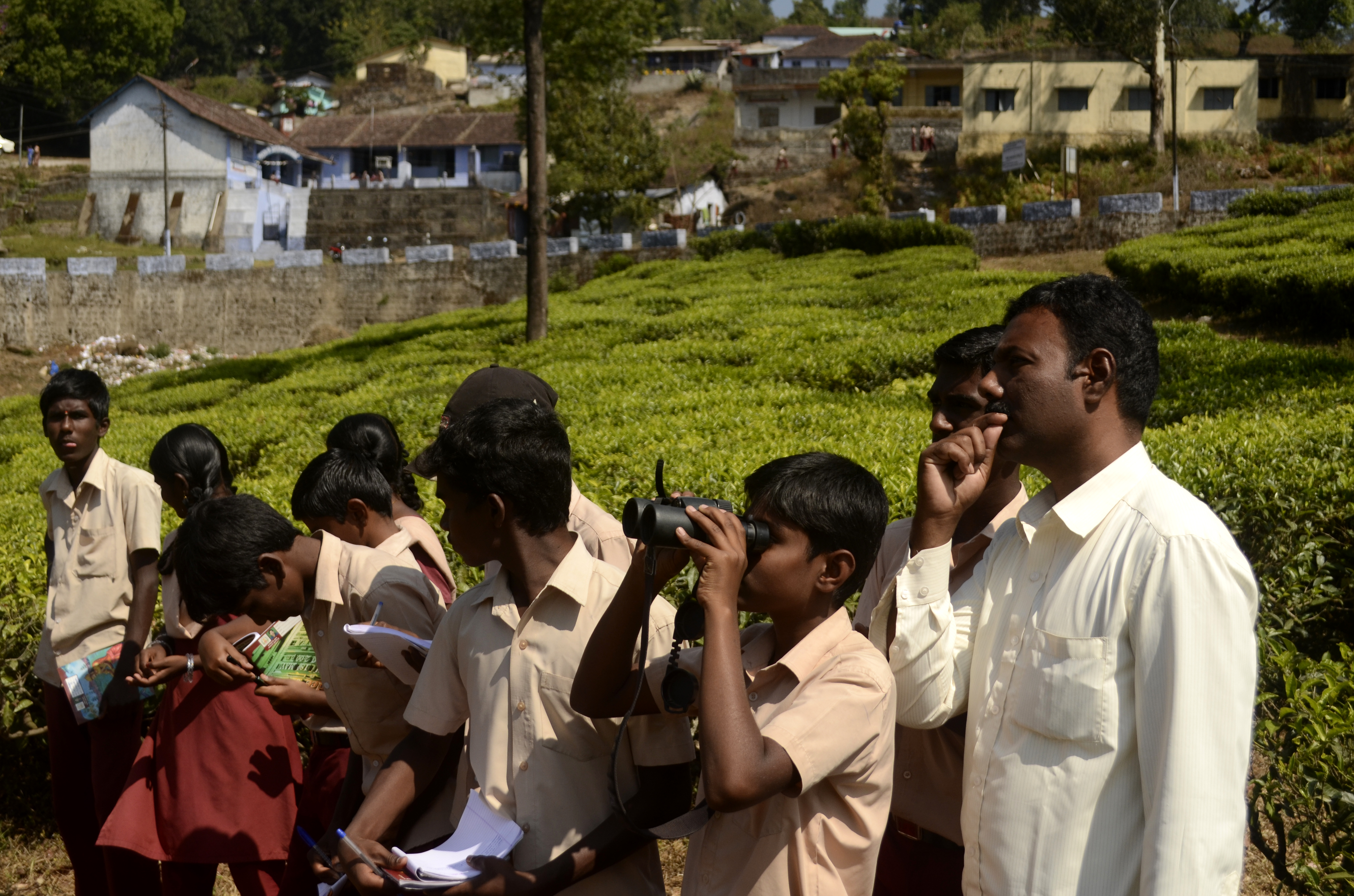 Birdwatching by School kids_Anaimalai Hills_